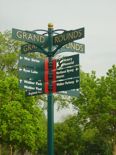 Grand Rounds directional sign near 45th Avenue North and Victory Memorial Parkway, Minneapolis, Minnesota, USA. These pictures were taken by Adam Backstrom in and around Minneapolis, MN with a Sony Cyber-Shot 5.0. They are free for anyone to use.